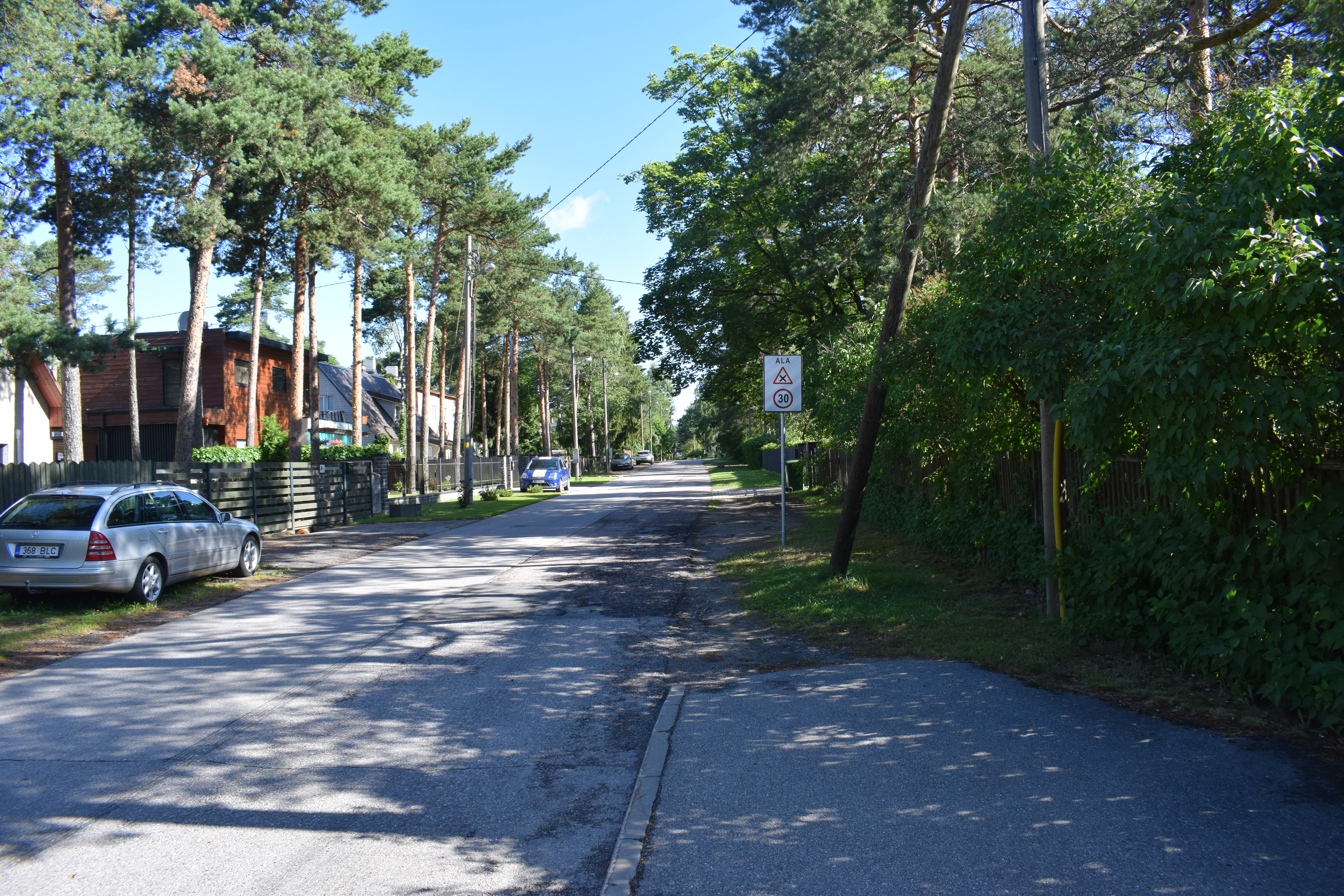 Päikese puiestee